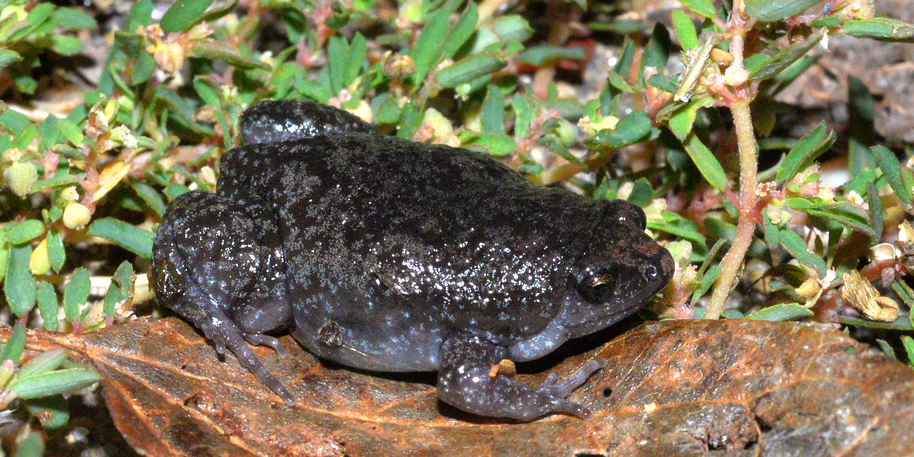 Amphibia: Anura; Microhylidae; Gastrophryne carolinensis photographed in Liberty Co. Texas, USA